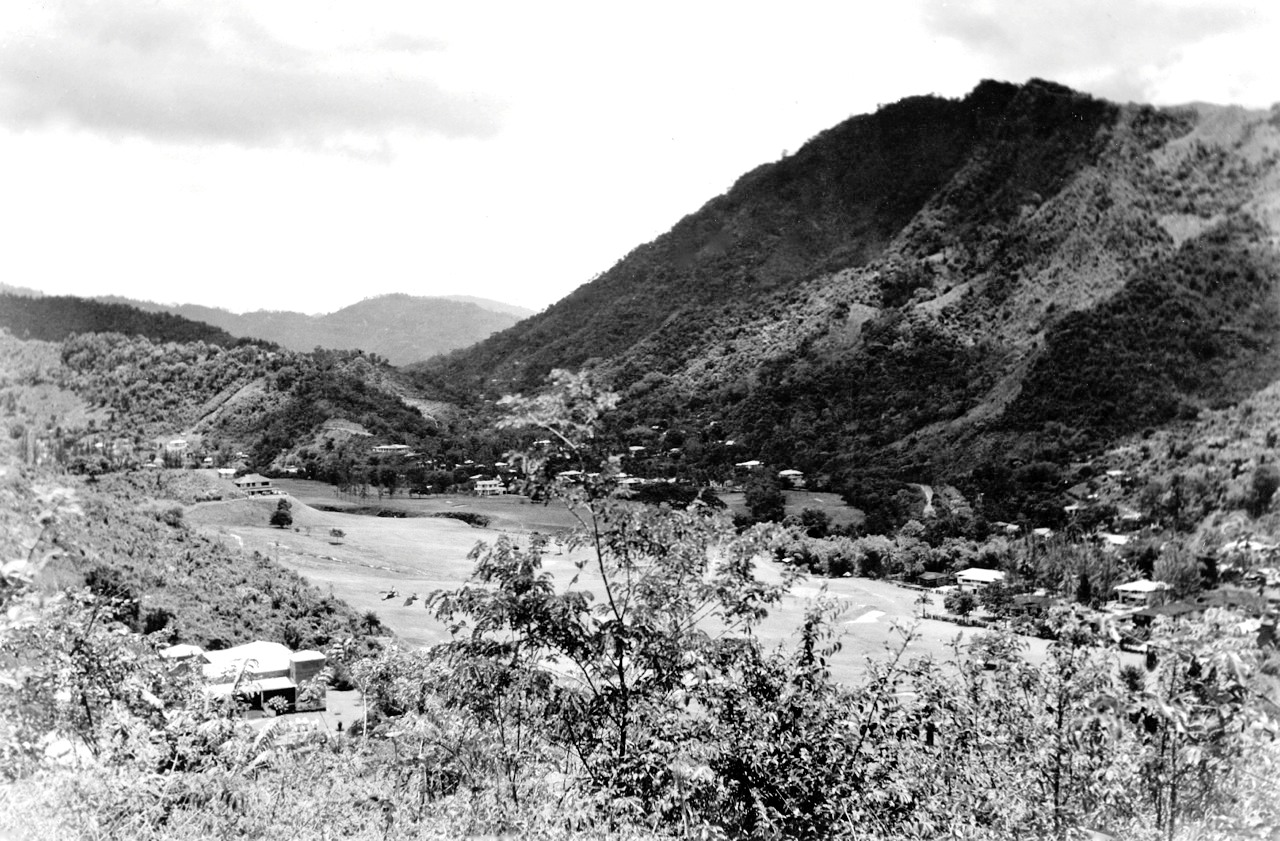 I took this photo while living in Trinidad in 1949